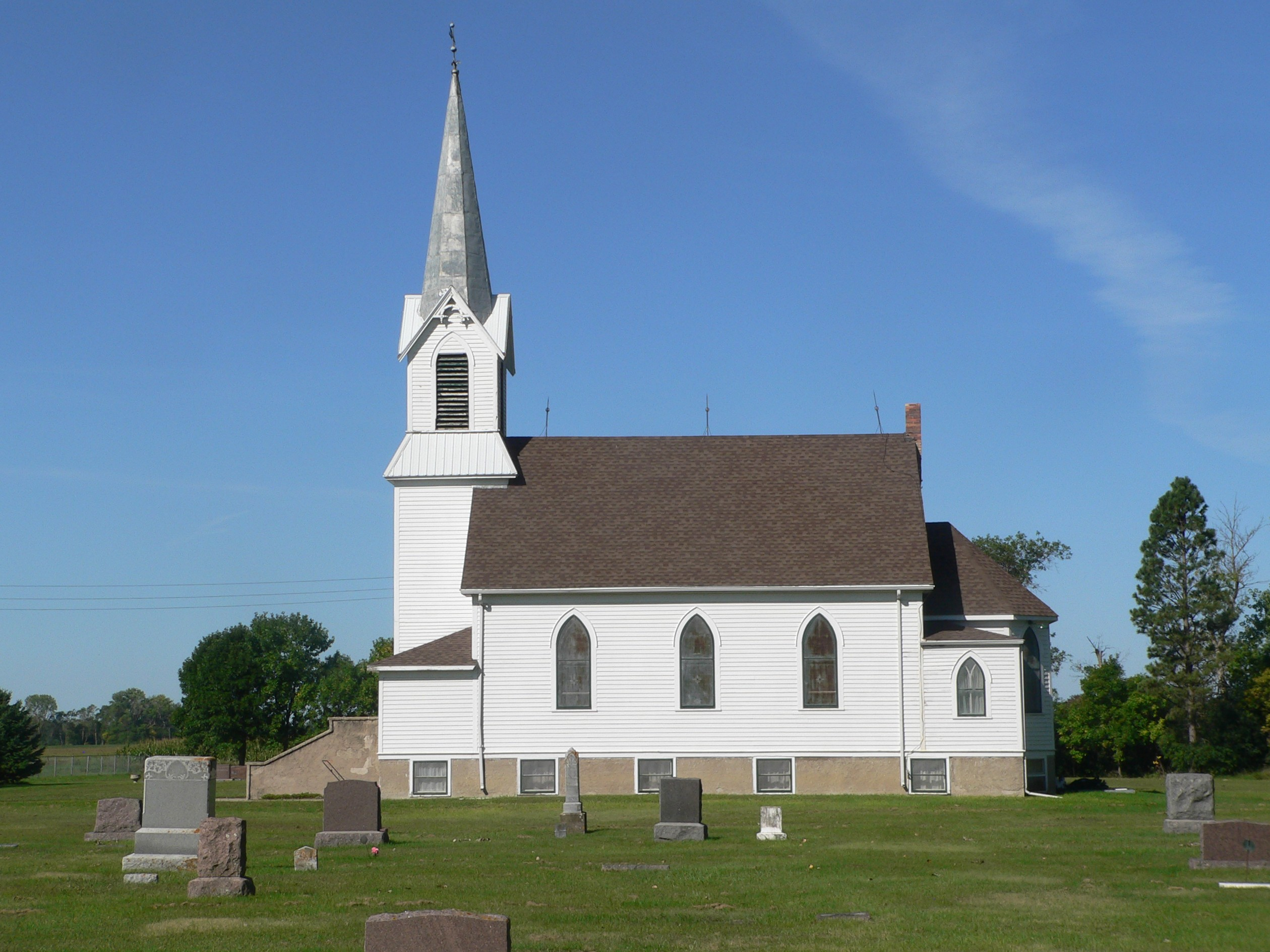 Walla Lutheran Church, on county road 105 Street northeast of New Effington, South Dakota; seen from the east.